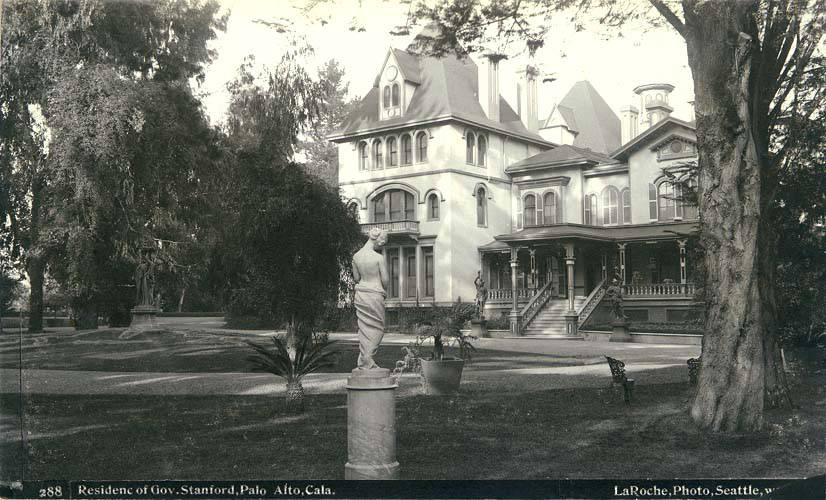 Caption on image: "Residence of Gov. Stanford, Palo Alto, Cala." Subjects (LCTGM): Dwellings--California--Palo Alto Subjects (LCSH): Stanford, Leland, 1824-1893; Statues--California--Palo Alto